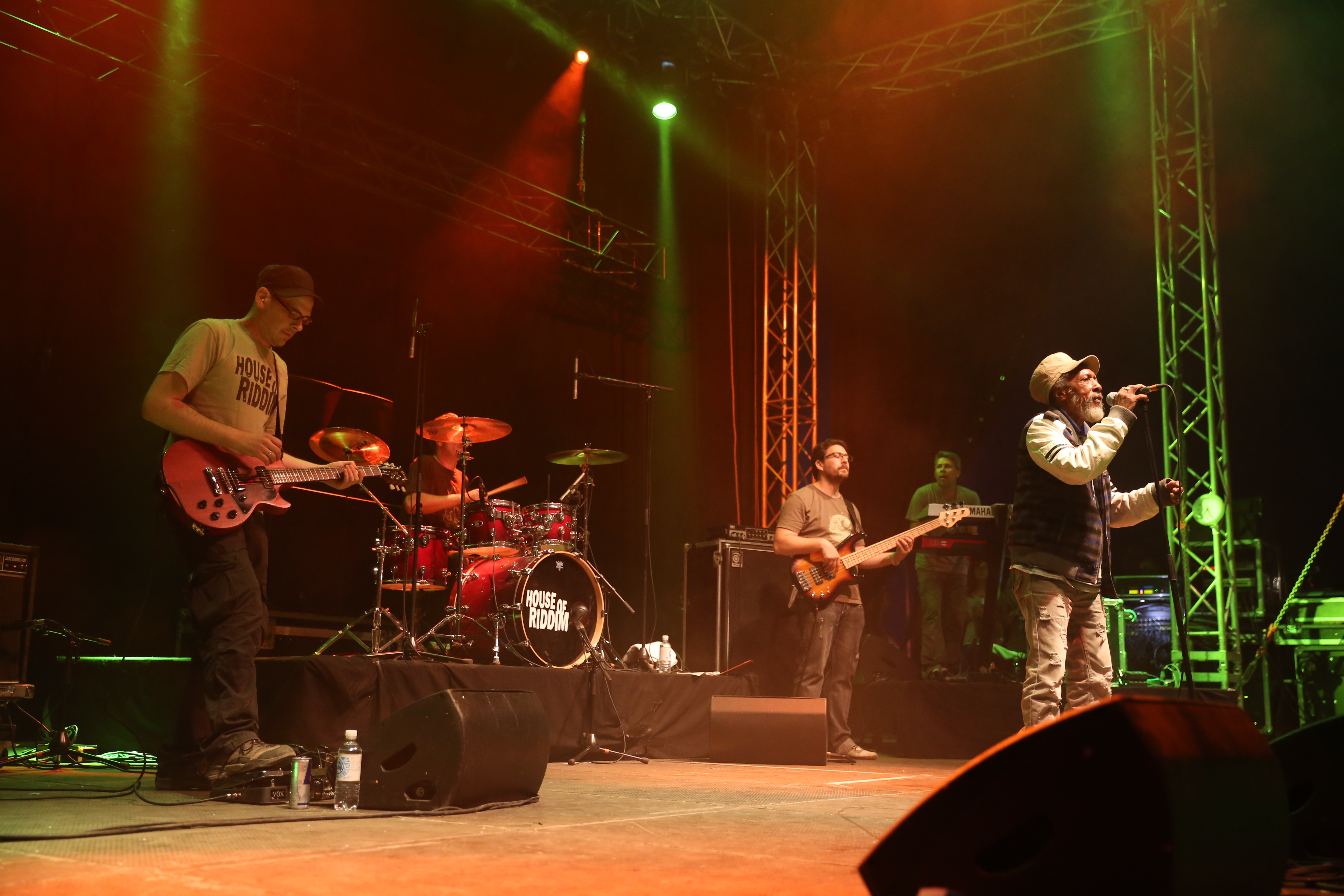 Ijahman Levi at Chiemsee Reggae Summer Festival 2013